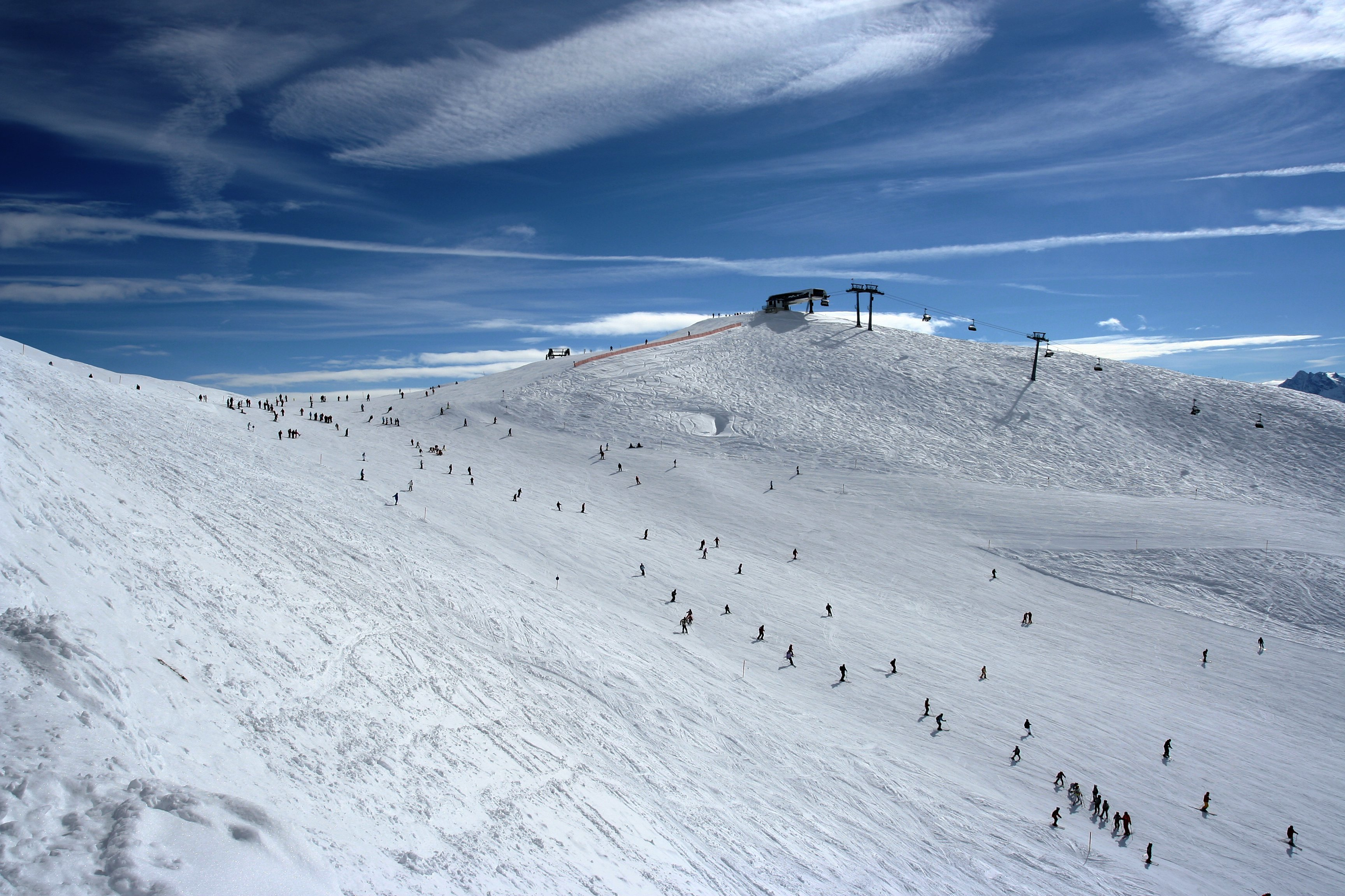 Ski slope in Rastkogel ski resort (Zillertal valley)